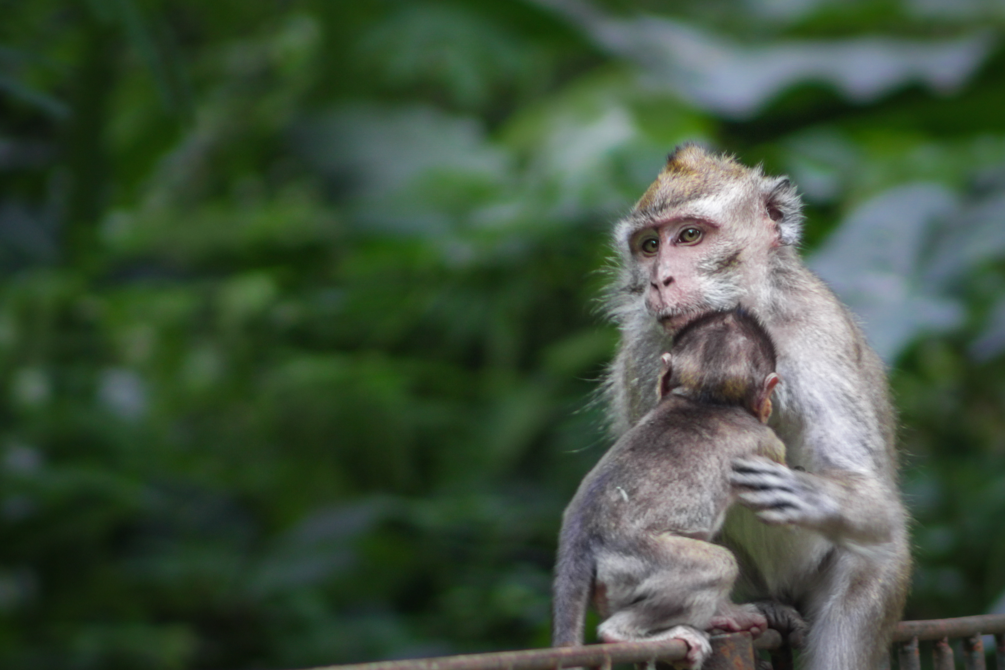 Mother Crab-eating macaque and Her Young Juvenile at Djuanda Forest Park, West Java, Indonesia